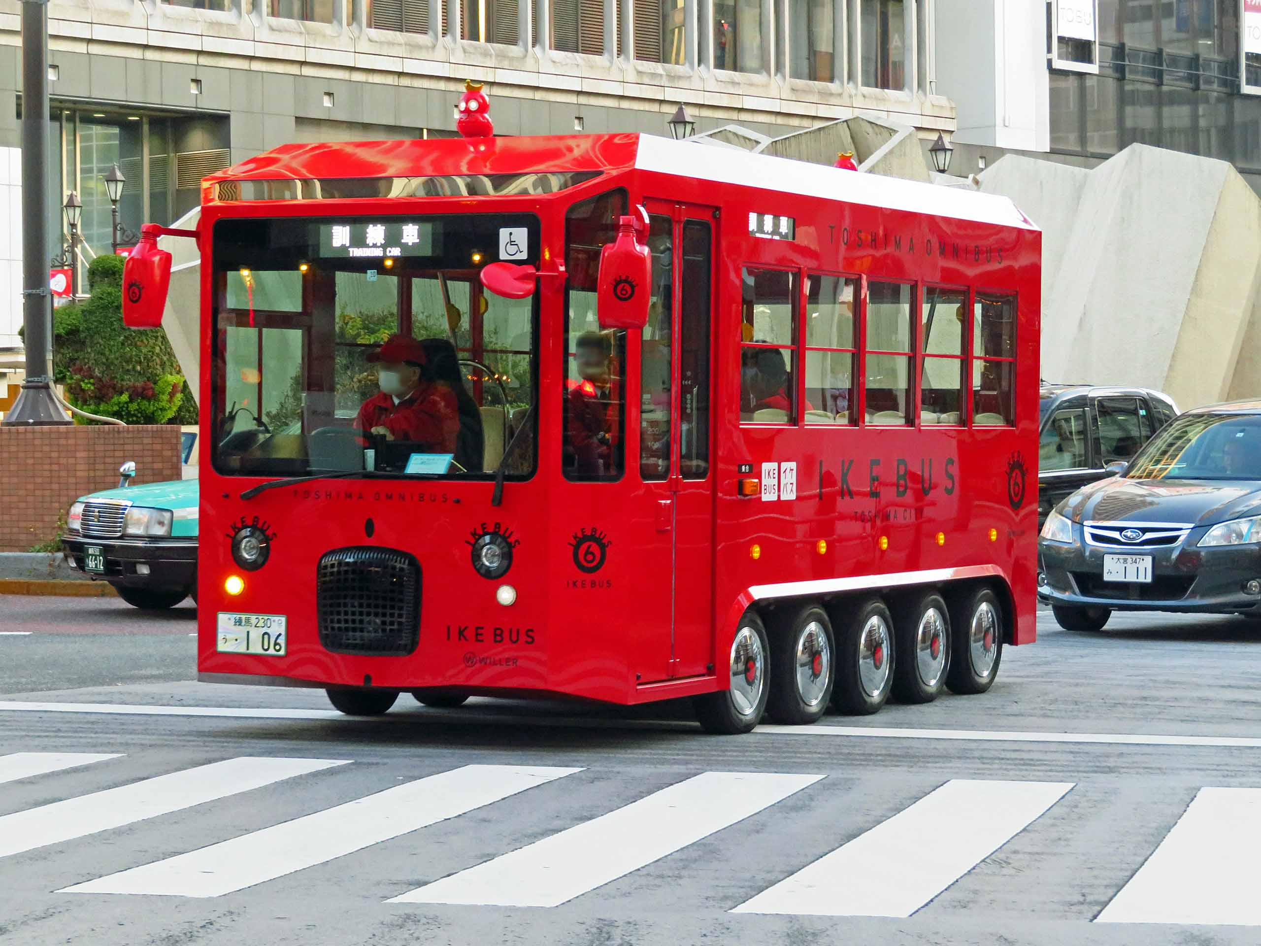 IKEBUS on training duty. License plate: TKN230 U0106 Place: Ikebukuro Station West